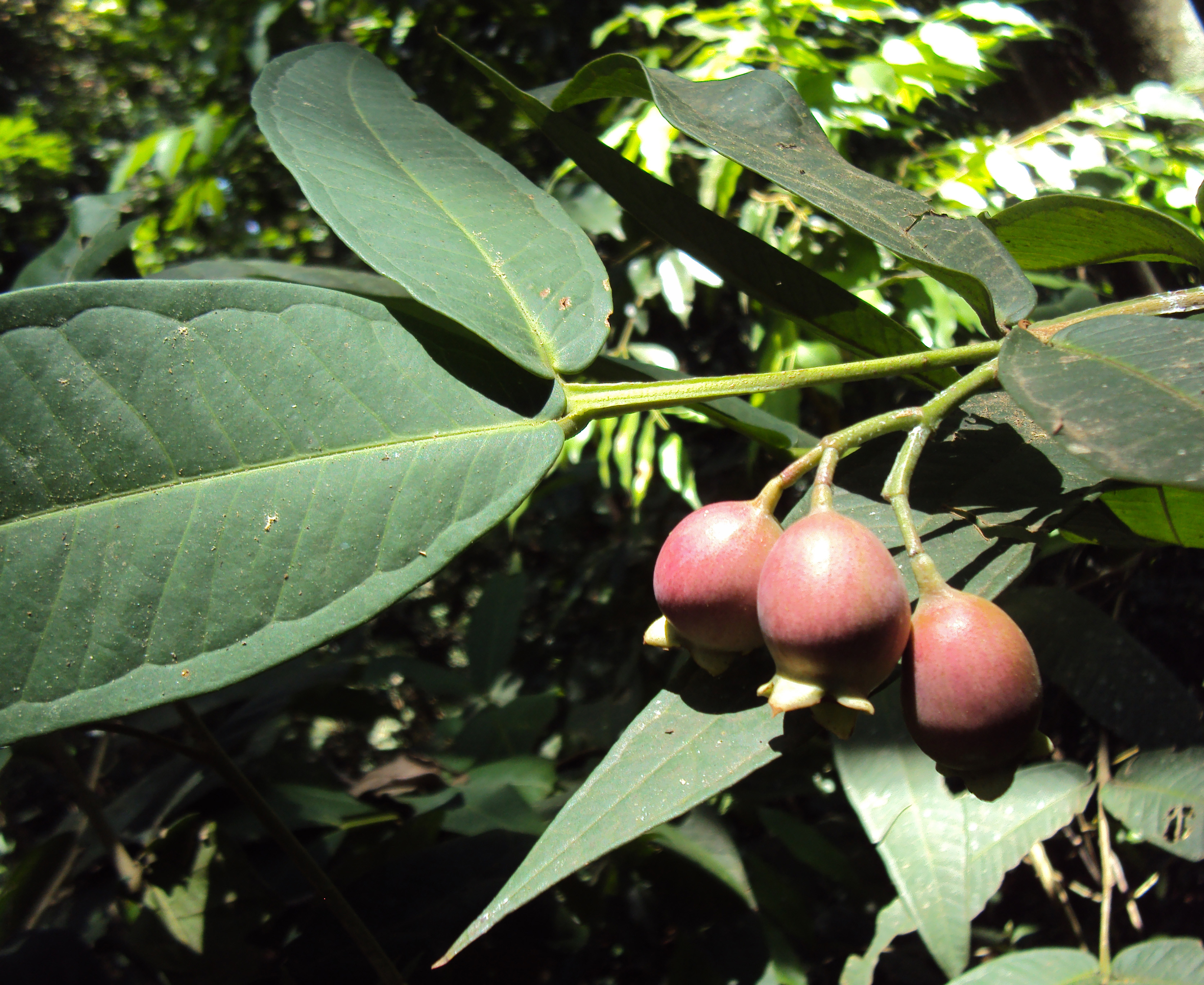 Syzygium Munronii